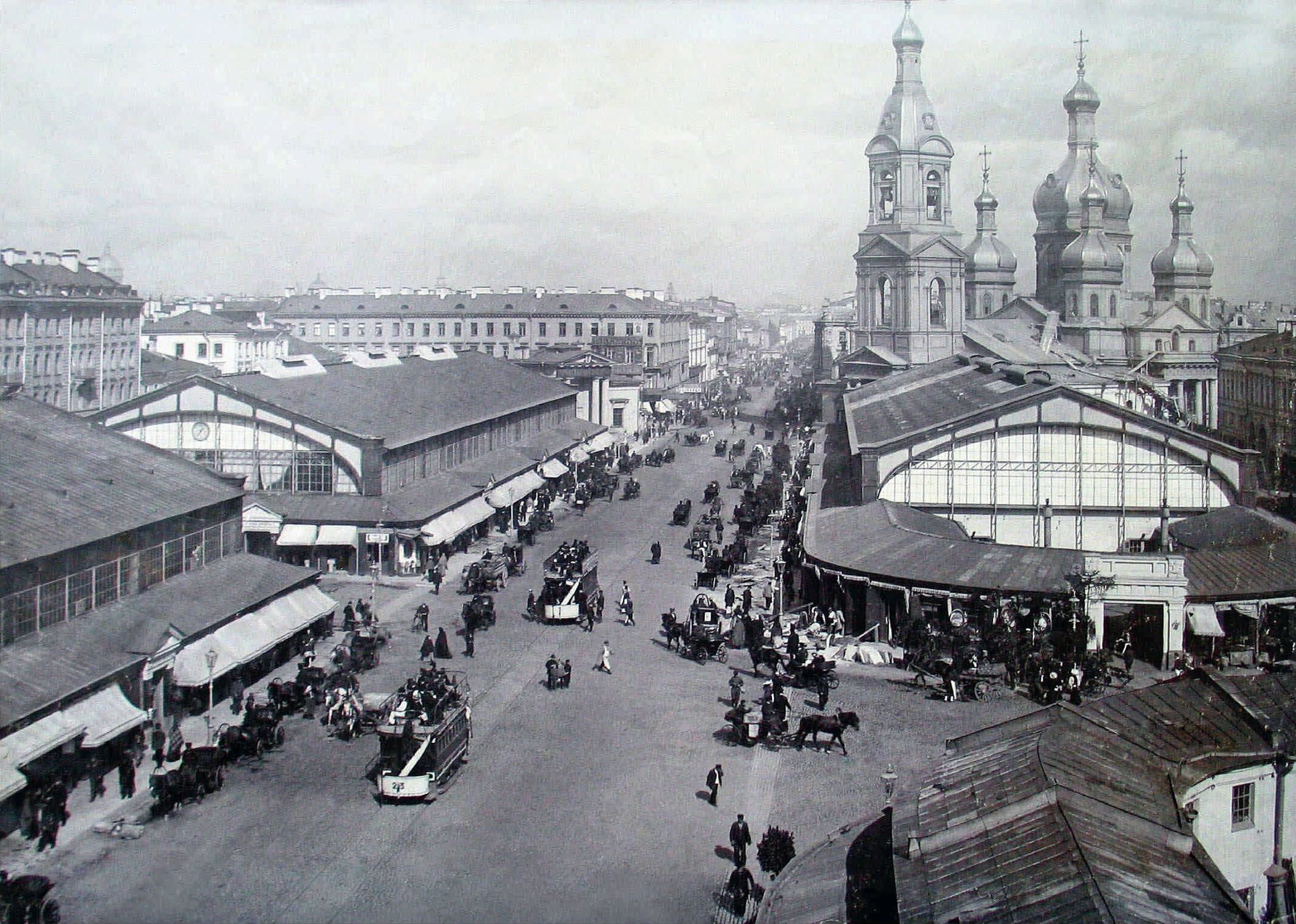 Sennaya Square in Saint Petersburg as photographed in 1900.